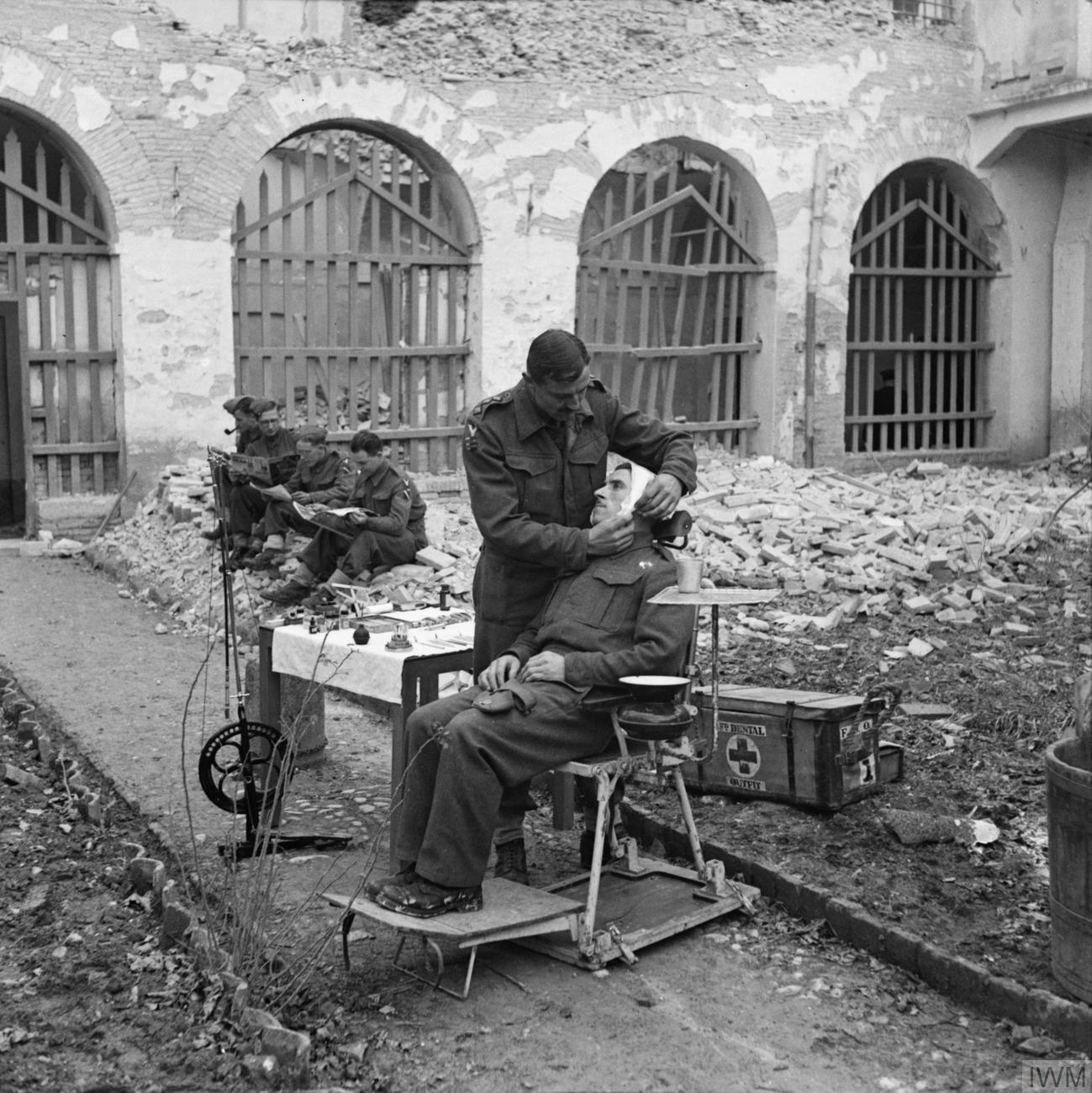 The British Army in Italy 1943 Captain D F Glass, an army dentist at work on a patient in a ruined building in Lanciano, 22 December 1943.